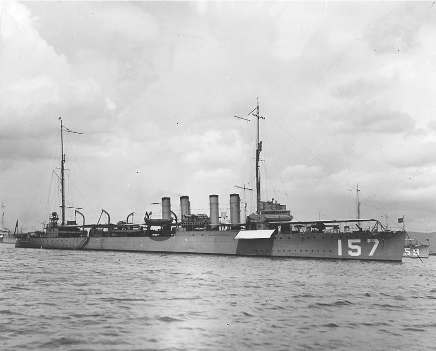 USS Dickerson at anchor, probably in Guantanamo Bay, Cuba, circa 1920. USS Schenck (Destroyer # 159) is partially visible in the right background. U.S. Naval History and Heritage Command Photograph #NH 54510.